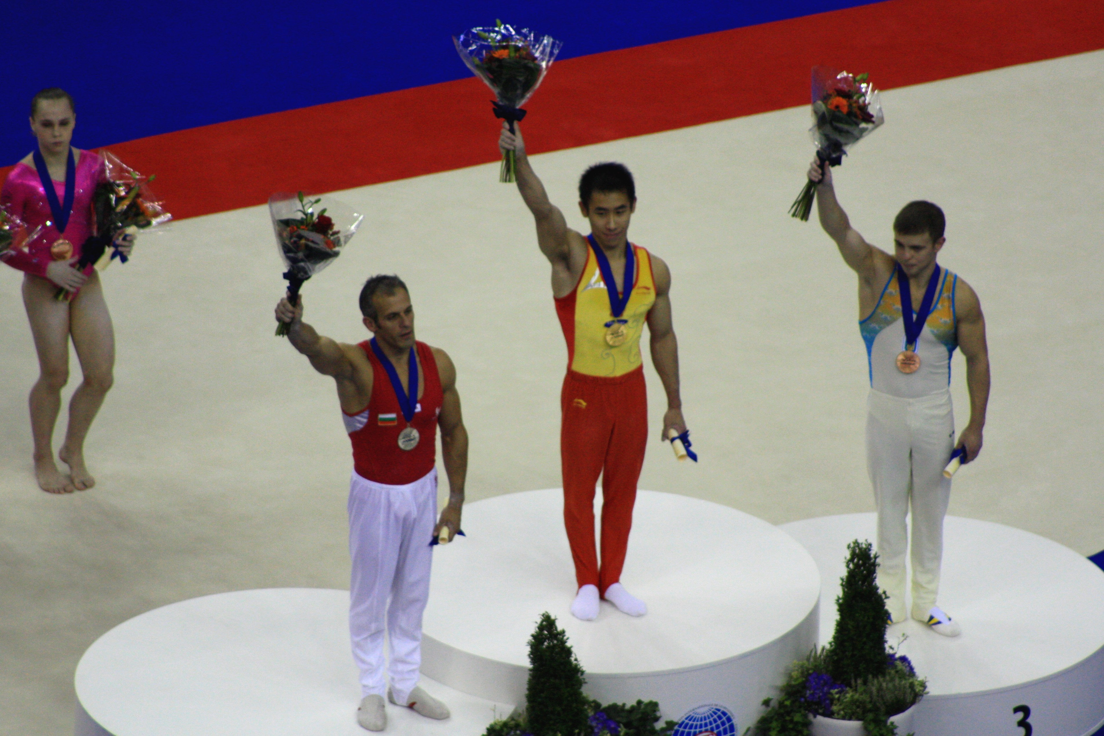 Podium of the rings at the 2009 World Artistic Gymnastics Championships. From left to right on the podium: Jordan Jovtchev (Bulgaria, 2nd place), Yang Mingyong (China, 1st place) and Oleksandr Vorobiov (Ukraine, 3rd place). Behind them, we can see Rebecca Bross (USA) with her bronze medal in uneven bars.